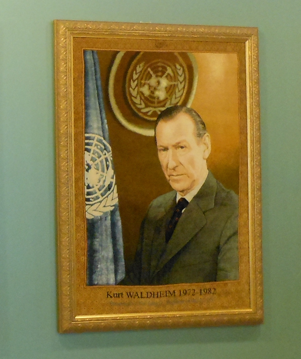 Kurt Waldheim Portrait made of silk carpet at the UN headquarters